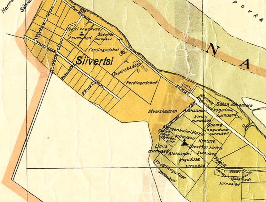 Surnuaia street at old Narva map (1929)